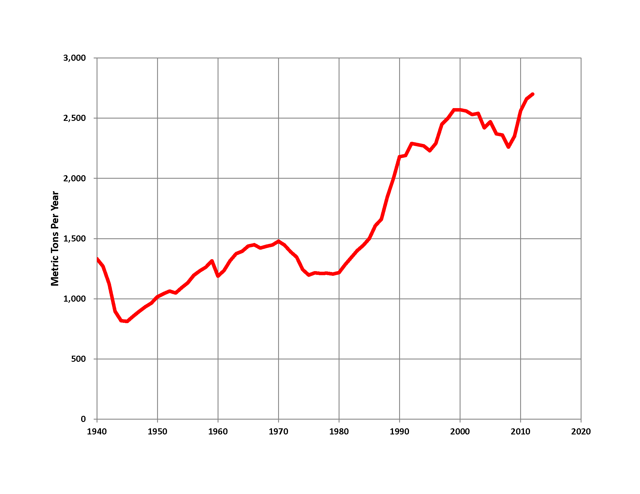 Annual world production of mined gold, 1940-2012